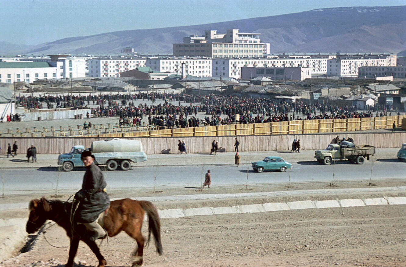 Flea market, Ulan Bator, Mongolia, (1972)